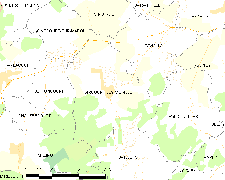 Map of French municipality Gircourt-lès-Viéville